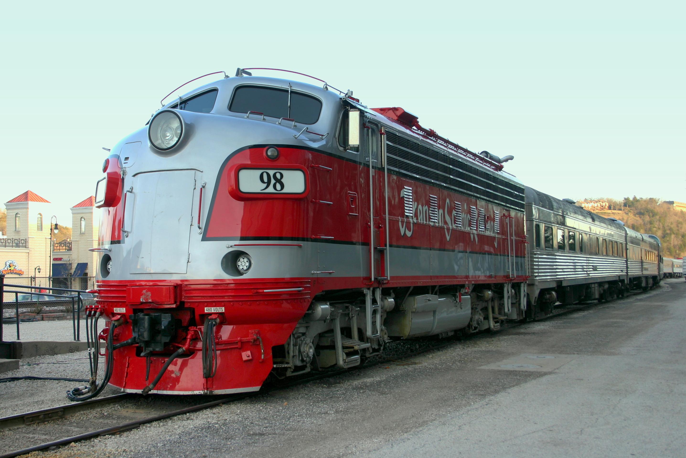 Branson Scenic Railways, Branson (MI)